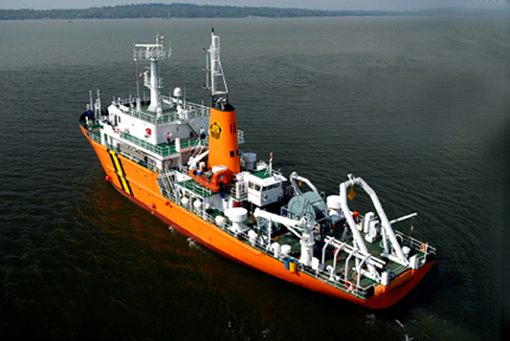 Geomarin III, Indonesian research ships for oil and gas exploration, currently on trial.